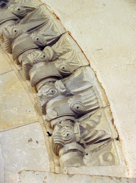 St Mary Magdalene, Tortington, Sussex - Stonework Chancel arch